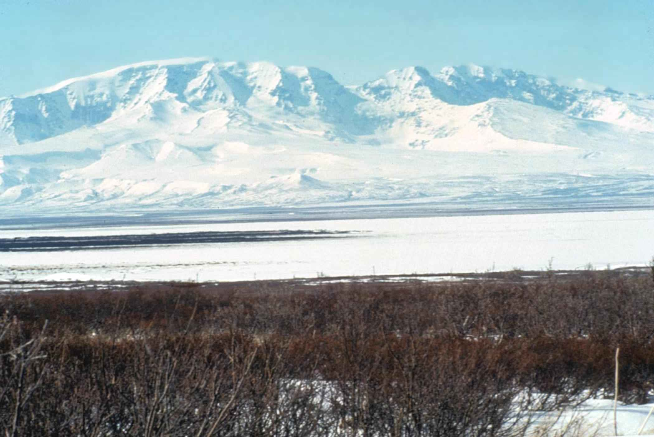 Image title: Mountain Veniaminof black lake landscape Image from Public domain images website